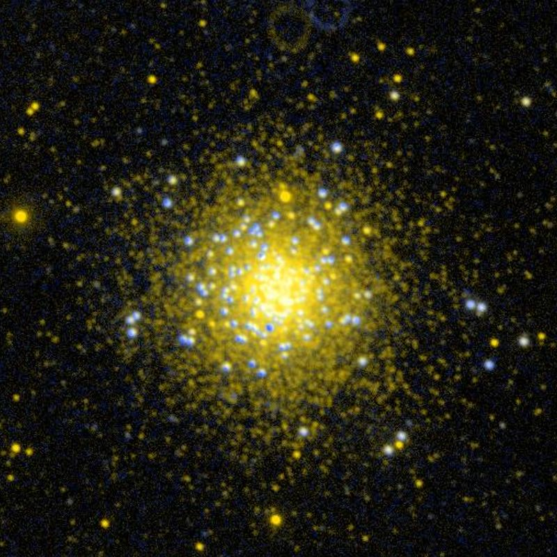 Messier 79 on GALEX sky survey